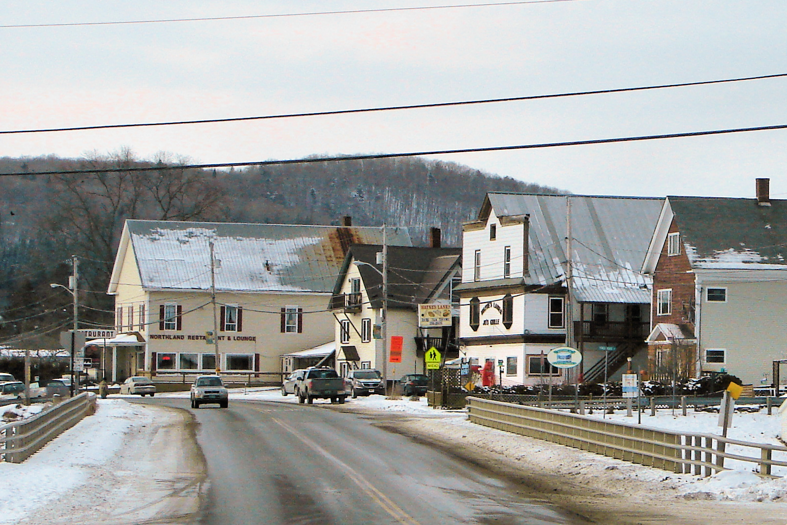 Canaan, Vermont, United States